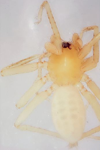 Spinestis nikita, dorsal view of male.